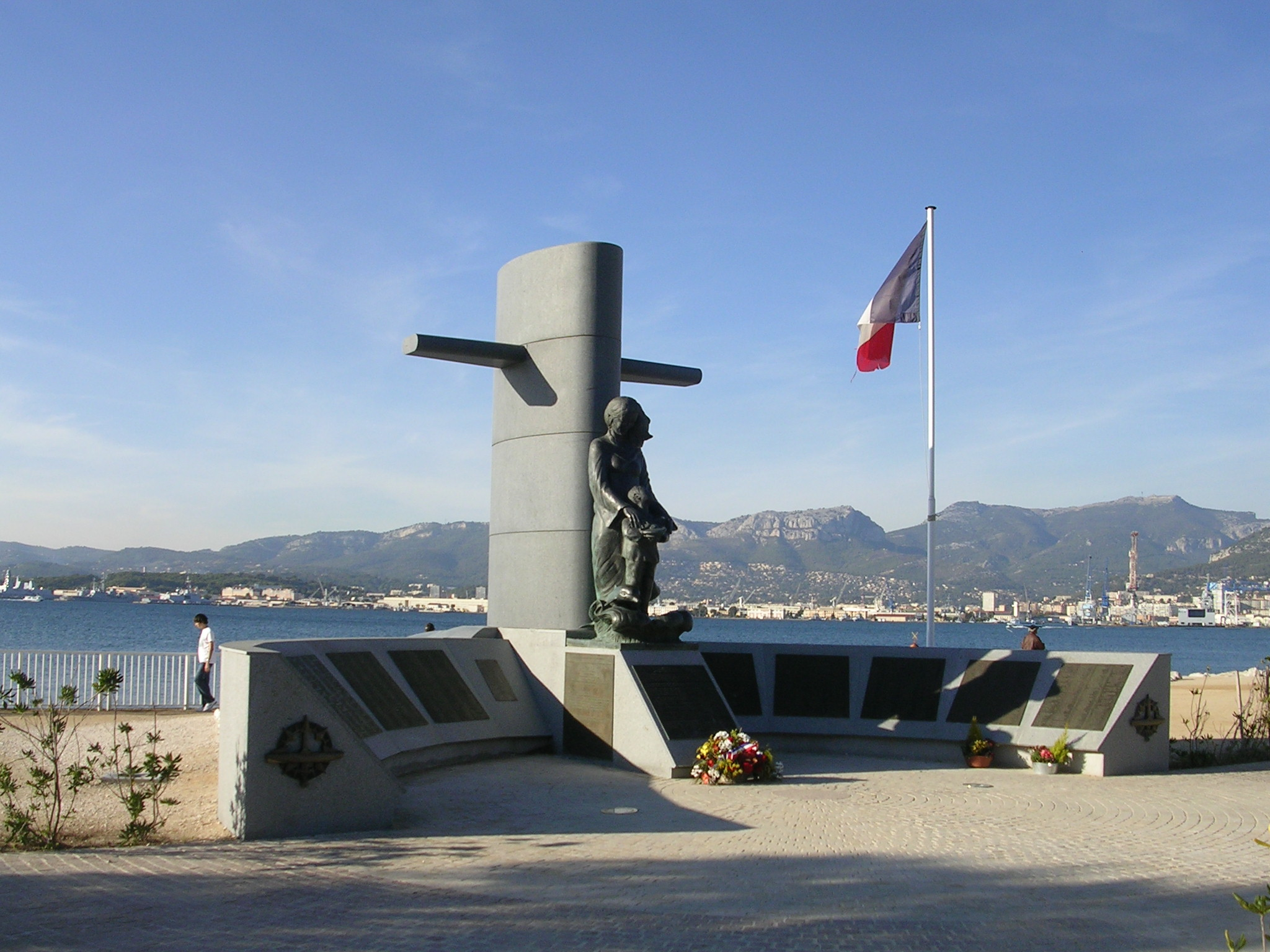 National memorial to submariners. Toulon, Tour Royale Park